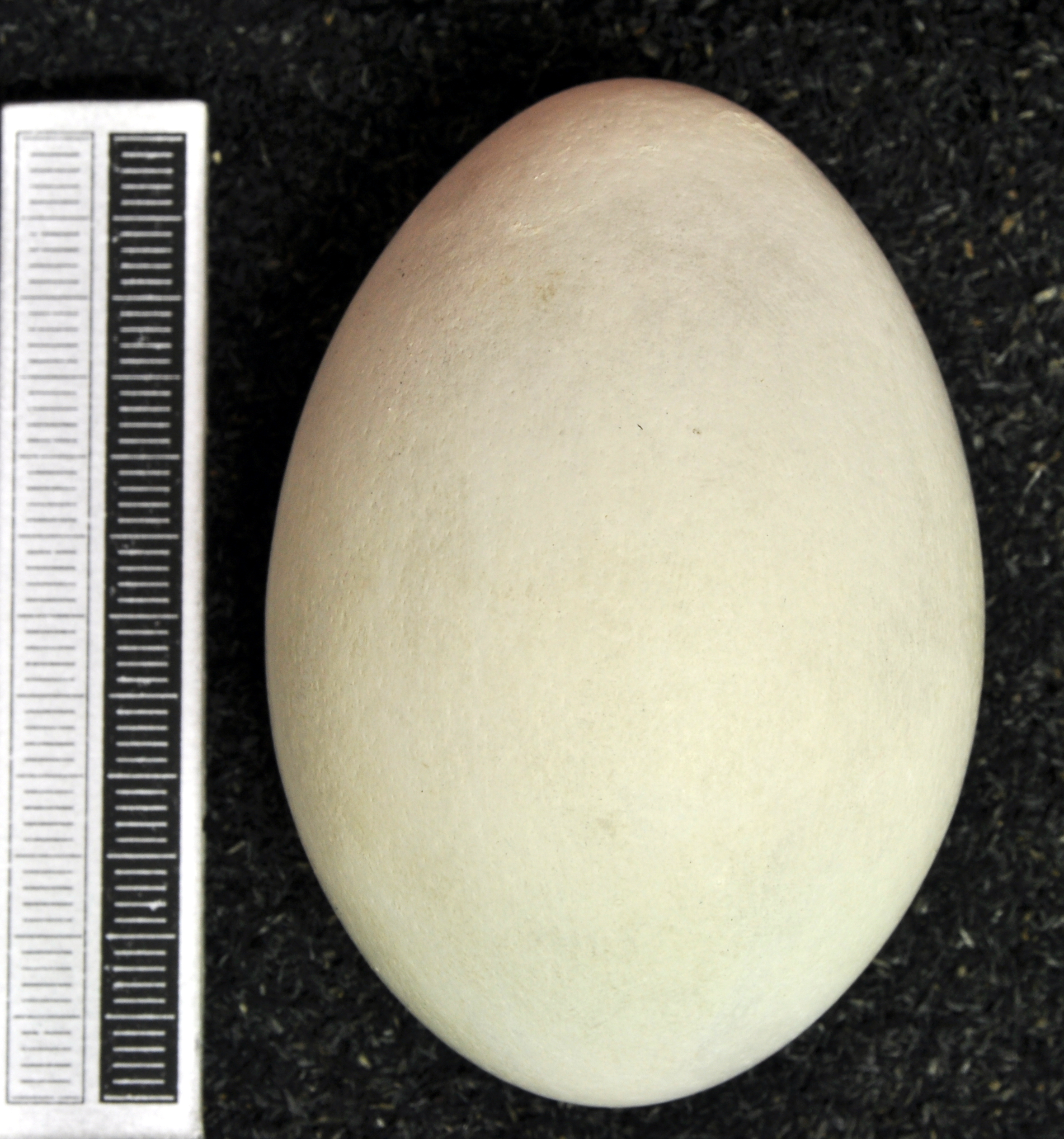 Great egret Egretta alba , egg, Coll. Museum Wiesbaden